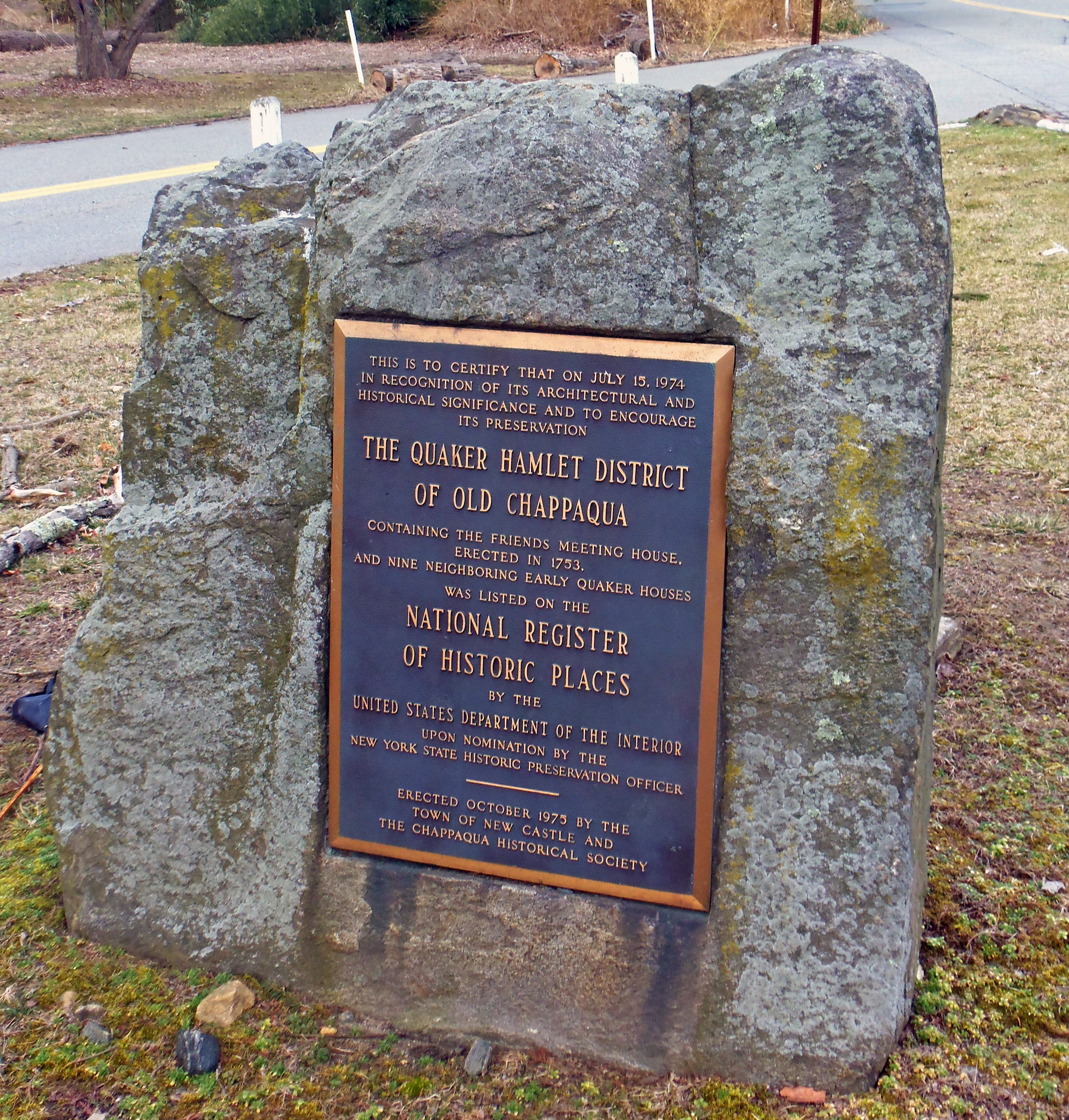 Commemorative plaque for Old Chappaqua Historic District at junction of Quaker (NY 120) and Chappaqua Mountain roads, New Castle, NY, USA